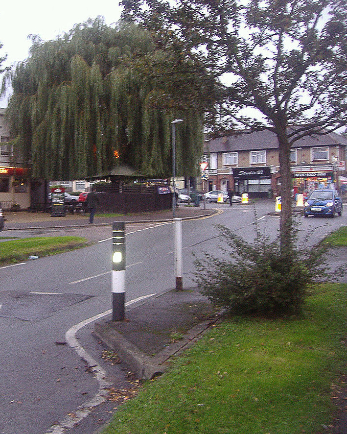 The Butterchurn pub and shops on Erskine Road